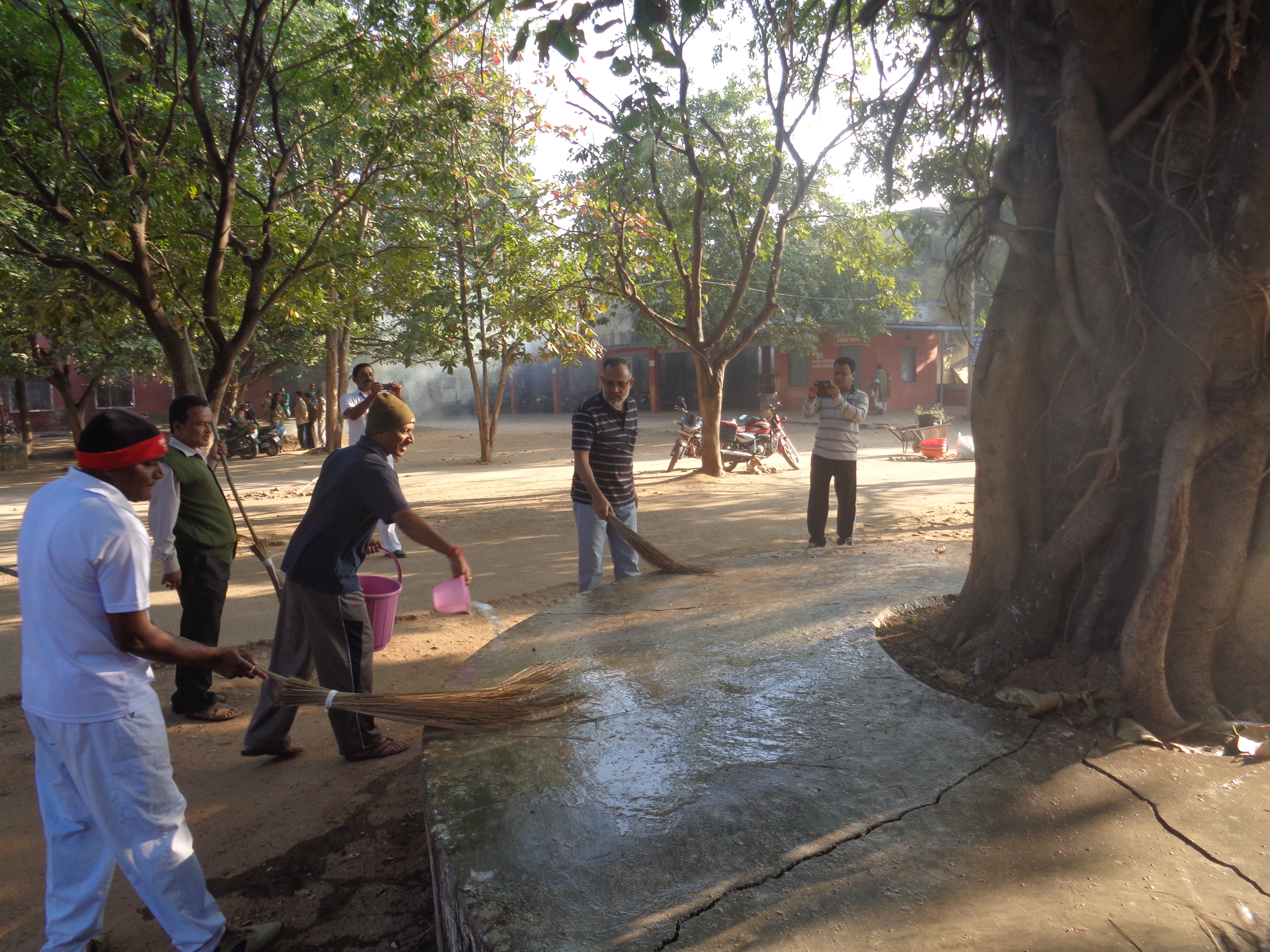 The staff members, Bar members and judicial Officers of District Court, Rayagada, led by the District Judge supported the Swachh Bharat Abhiyan by cleaning the Civil Court premises on 05.11.2014 and continuing the noble effort on 29.11.2014 to share their social responsibility in making India clean.